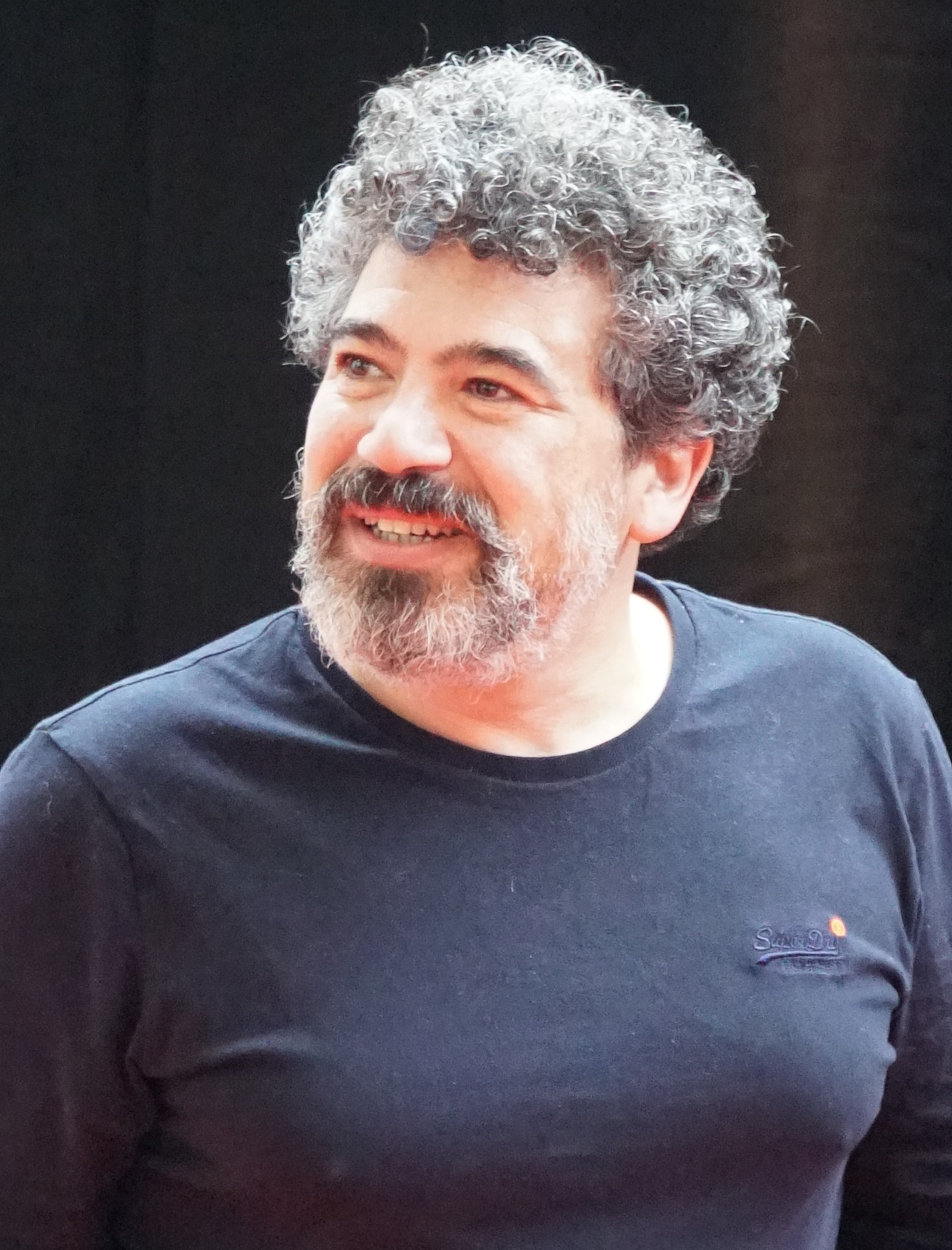 2018 - Day 1 - Comiccon Brussels Miltos Yerolemou(UK) Our next guest is known to many as Syrio Forel, Arya Stark's 'dance teacher' in Game Of Thrones. We are of course talking about Miltos Yerolemou(UK)! Syrio Forel was the one instructing Arya on how to use 'Needle'(thanks!) using the Bravo's Water Dance fighting style! He's also know from his roles in Star Wars : The Force Awakens and The Danish Girl. Miltos will be there 2 days and will be available for photoshoots, autographs and will give a special Swordfighting class! You can buy the tickets for the workshop in the photoshoot shop on our website. FINALLY FOR THE FIRST TIME IN THE HEART OF EUROPE! You will find us at the beautiful Tour & Taxis site near the Brussels North train station. At Comic Con Brussels you will find Dealers, Artists, Actors, ... It's a Con that brings together all the things you love: MOVIES, GAMING, COMICS, MANGA, COLLECTIBLES, ANIME, TV, CLOTHING, TOYS AND GADGETS AND A LOT MORE! Hope to see you there! We will have a blast!